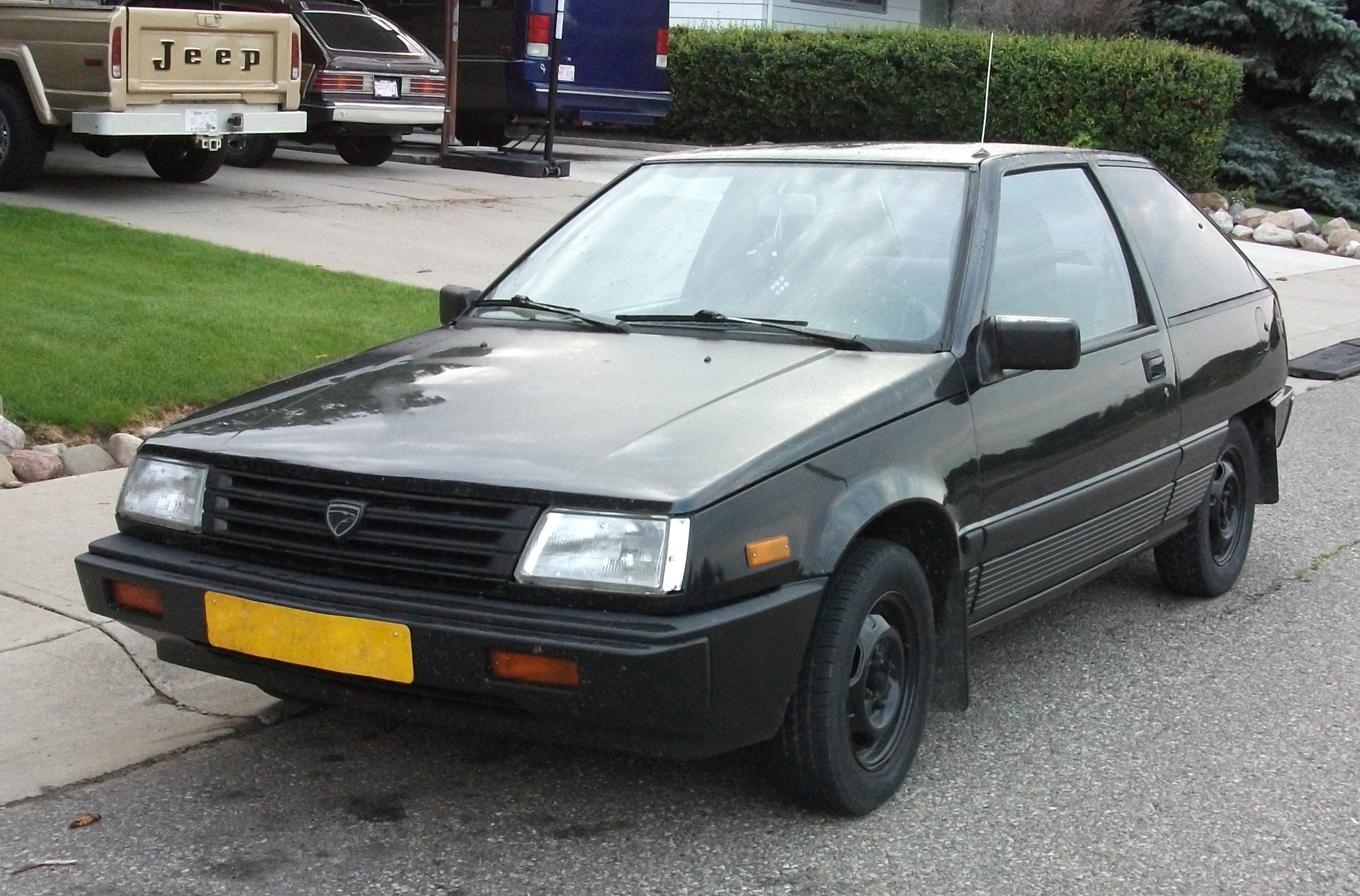 Eagle Vista - a Canadian variant of the Dodge Colt.